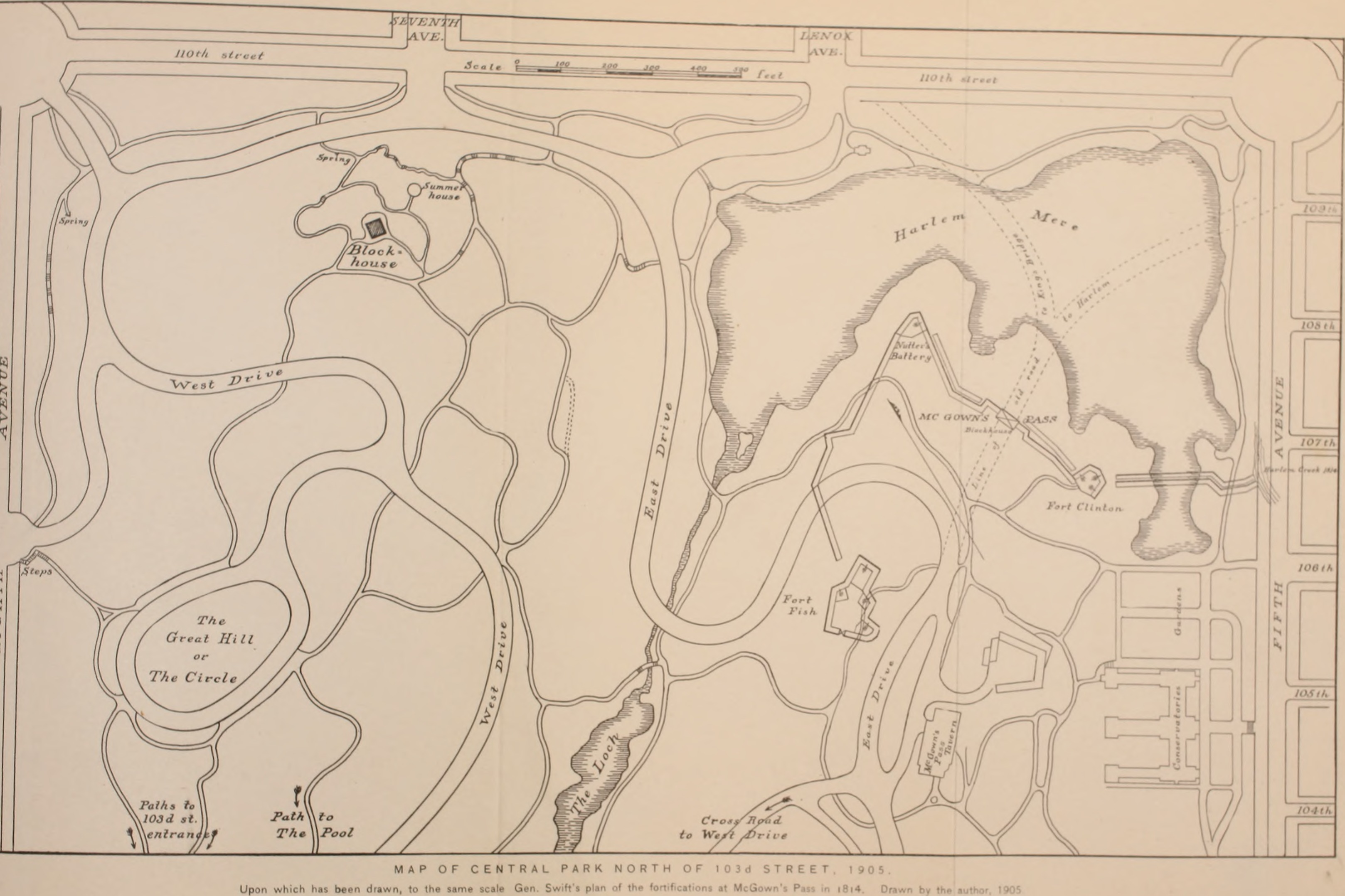 Title: McGown's pass and vicinity : a sketch of the most interesting scenic and historic section of Central Park in the city of New York Year: 1905 (1900s) Authors: Hall, Edward Hagaman, b. 1858 Subjects: Publisher: New York : Published under the auspices of the American Scenic and Historic Preservation Society Text Appearing Before Image: ' Text Appearing After Image: LIBRARY OF CONGRESS 0 014 220 460 5 %